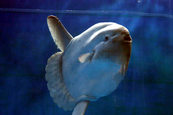 Mola mola(Aqua World)